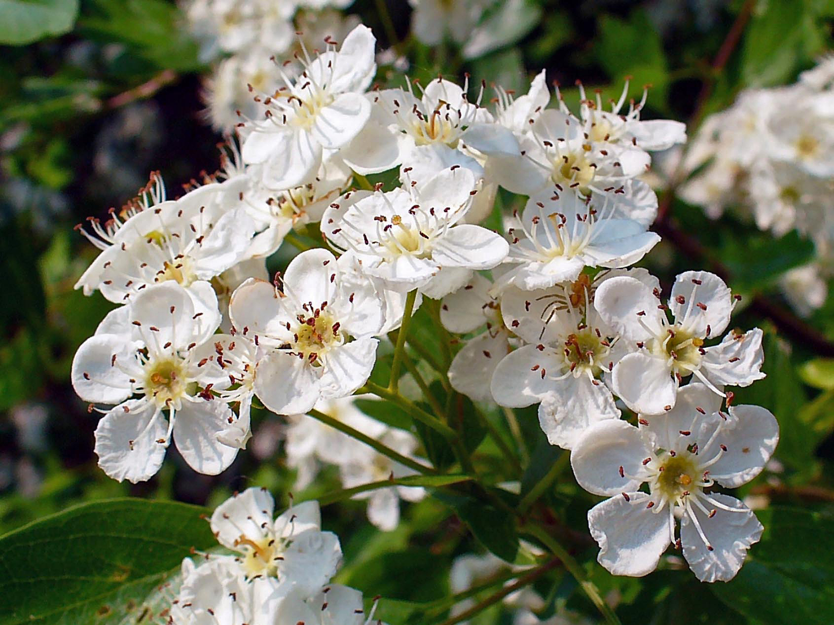 Crataegus monogyna, Rosaceae, Common Hawthorn, Mayblossom, Maythorn, Quickthorn, Whitethorn, Motherdie, Haw, flowers; Karlsruhe, Germany. The fresh ripe fruits are used in homeopathy as remedy: Crataegus (Crat.)